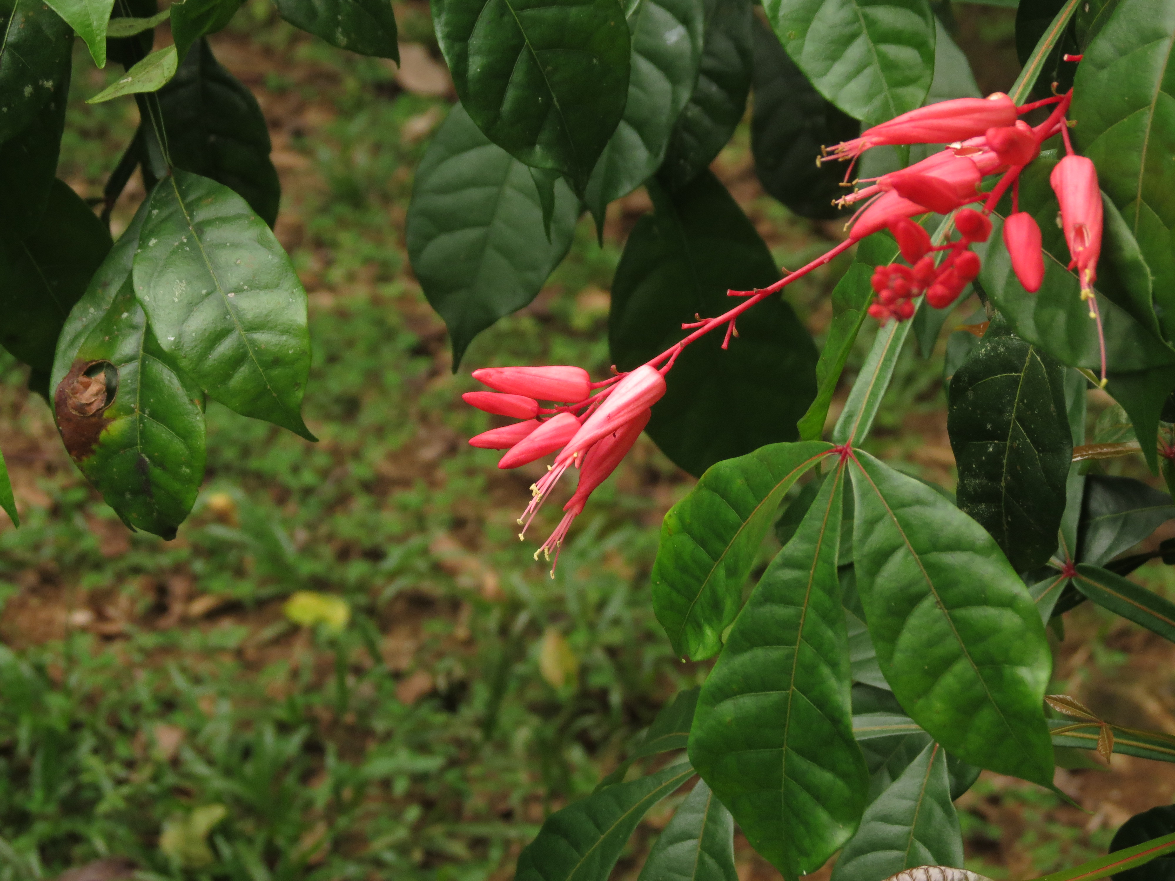 Quassia amara seen in Thattekad Kerala India